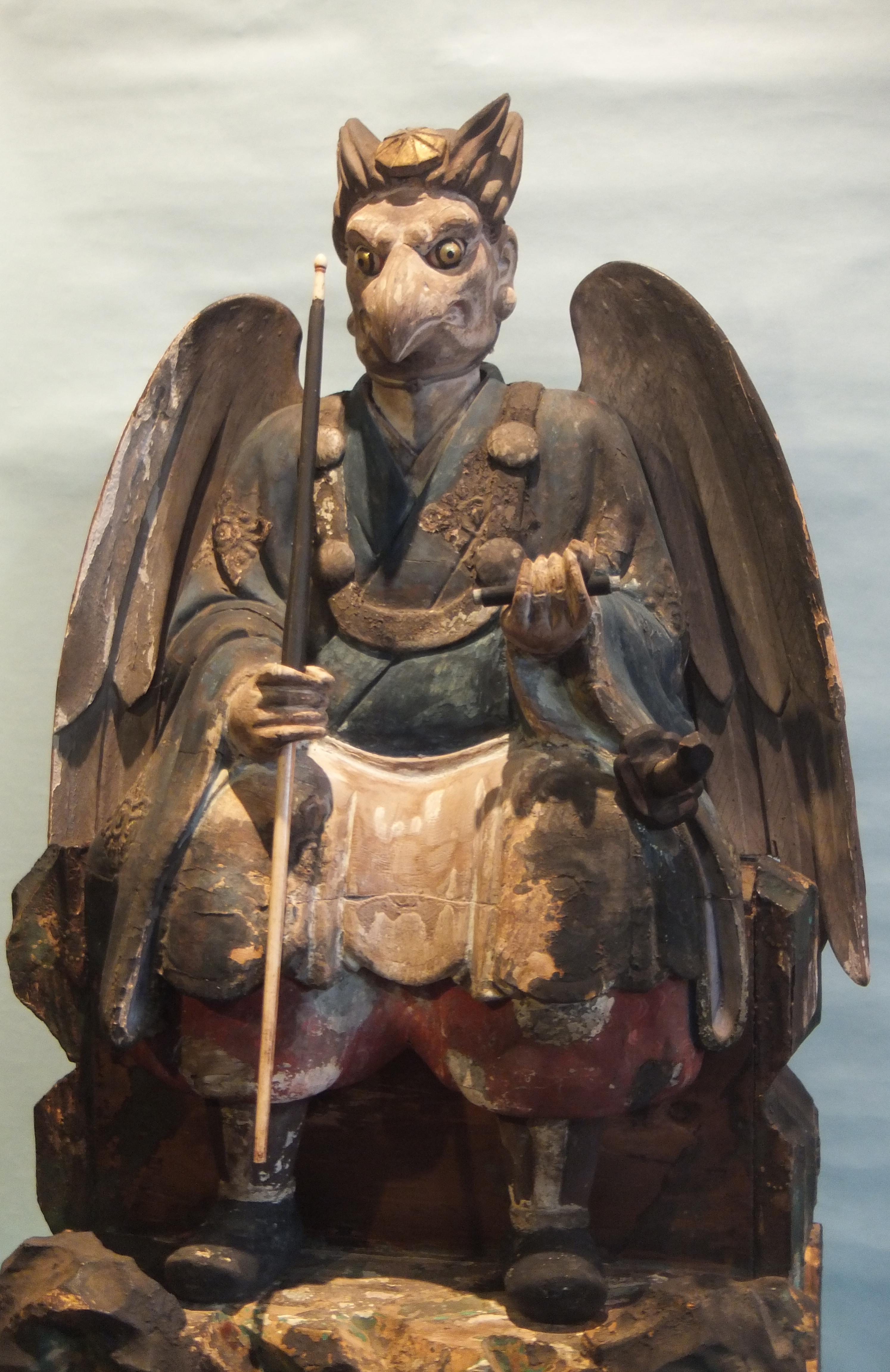 Crow-Tengu (Karasu-Tengu), late Edo period (28x25x58cm, private collection)